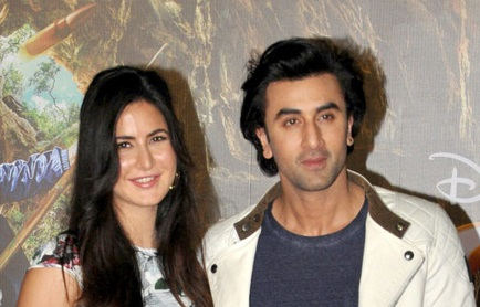 Ranbir Kapoor and Katrina Kaif launch ‘Galti Se Mistake’ song from ‘Jagga Jasoos'